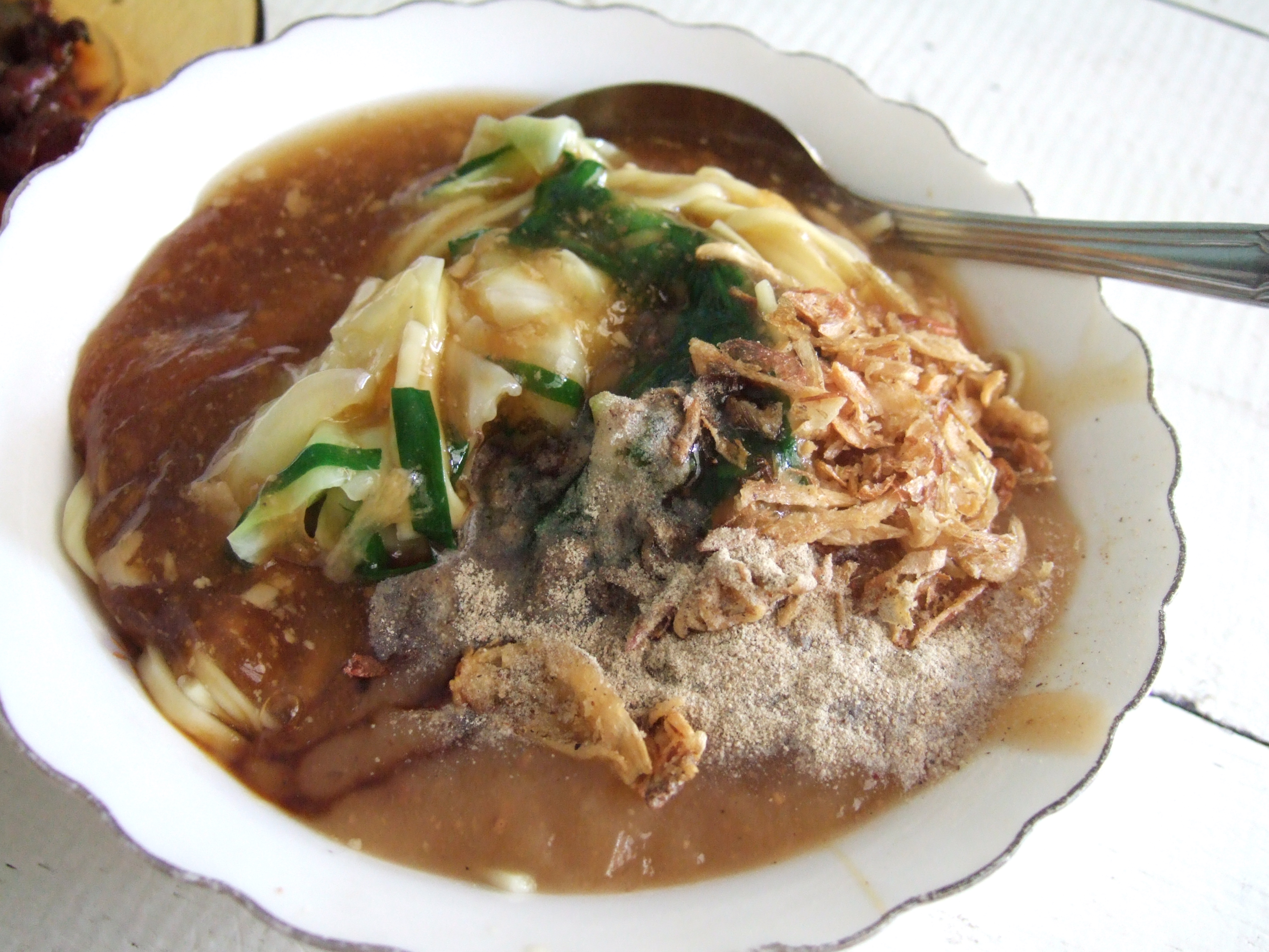 Ongklok Noodle of Wonosobo, Central Java, Indonesia